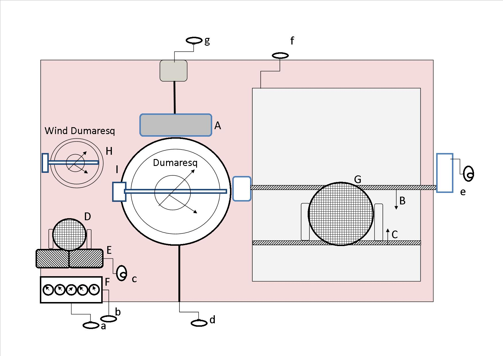 Scheme of the Dreyer table Mark III